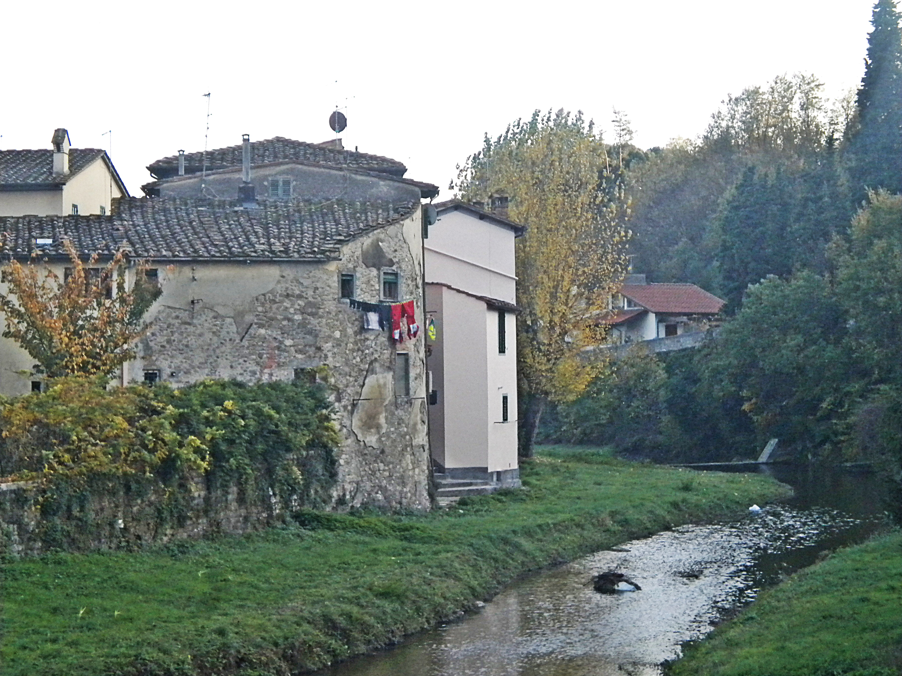 on the stura river